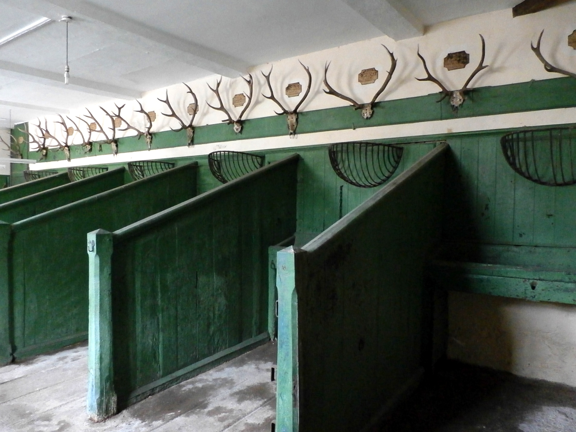 Stalls in stables built by Sir Thomas Dyke Acland, 9th Baronet (1752–1794) at Holnicote, Selworthy, Somerset. The thirty stag heads on the walls date from about 1787 to 1793 and were killed under his mastership of the Devon and Somerset Staghounds. Notoriously some of the brow points of the antlers were sawn-off by a groom because they interfered with the loading of hay into the mangers.(Acland, Anne, 1981, p.27). A similar collection of stagheads amassed by his father the 7th Baronet, and much beloved by him, was destroyed during a fire at Holnicote in 1779. (Acland, Anne. A Devon Family: The Story of the Aclands. London and Chichester: Phillimore, 1981, pp.25, 27) Now property of the National Trust